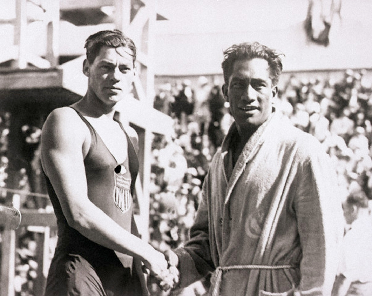 The 1924 Olympic swimmers in France. Duke Kahanamoku and Johnny Weismuller, shaking hands.